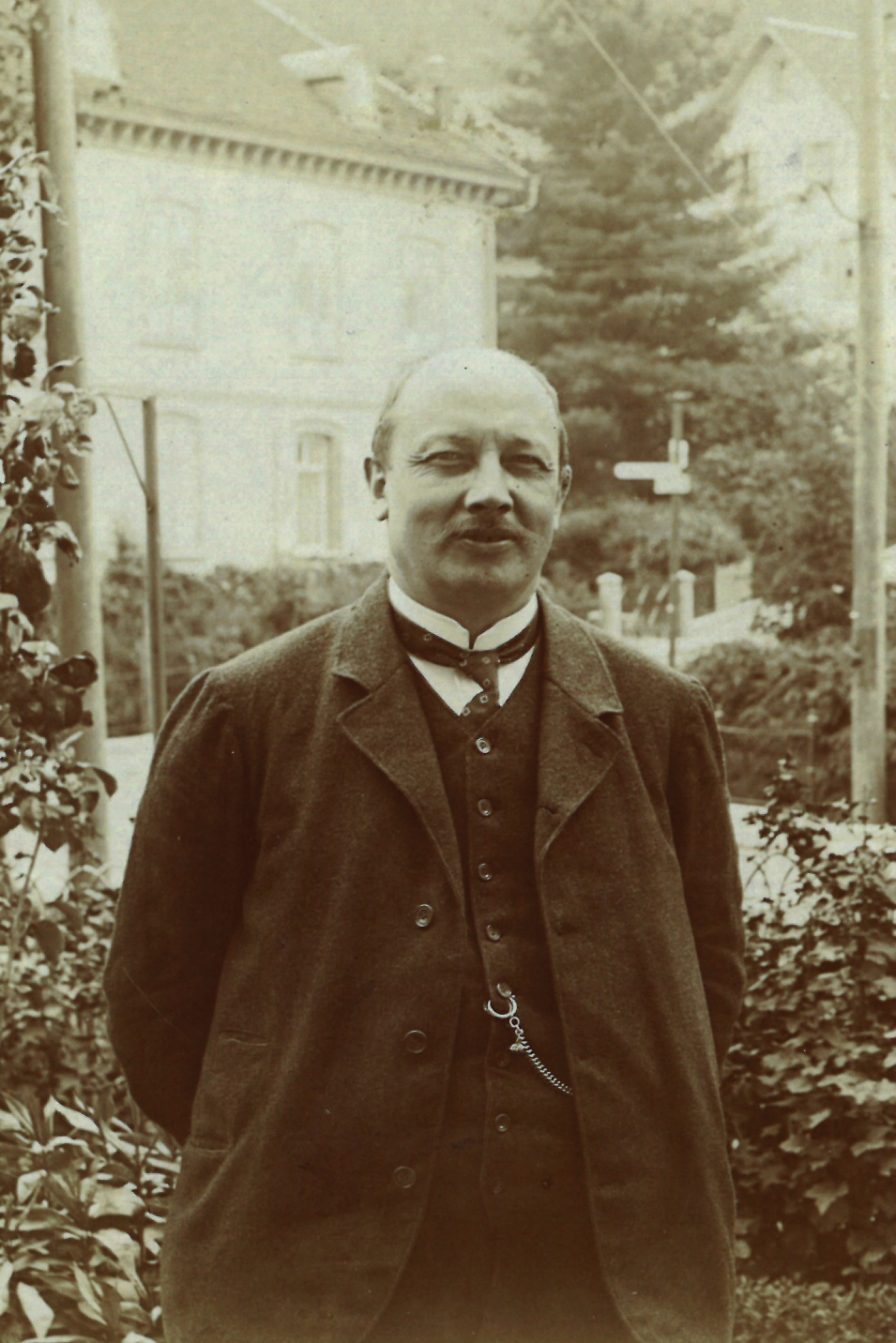 Oskar Spiegelhalder (1864-1925)